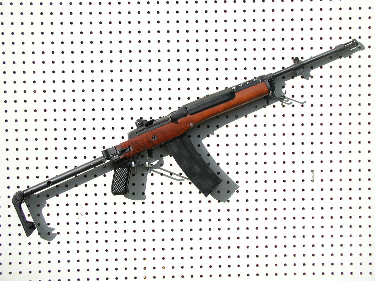 Ruger Mini-14/F30GB semi-automatic rifle (pictured with folding stock open) Rifle is completely original Ruger issue featuring: pistol grip, folding stock, 30 round magazine, bayonet lug, threaded barrel, and flash suppressor.